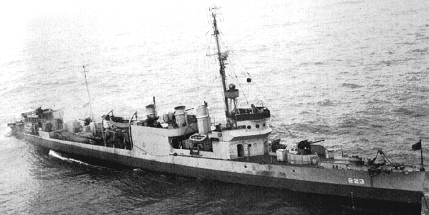 The USS McComick